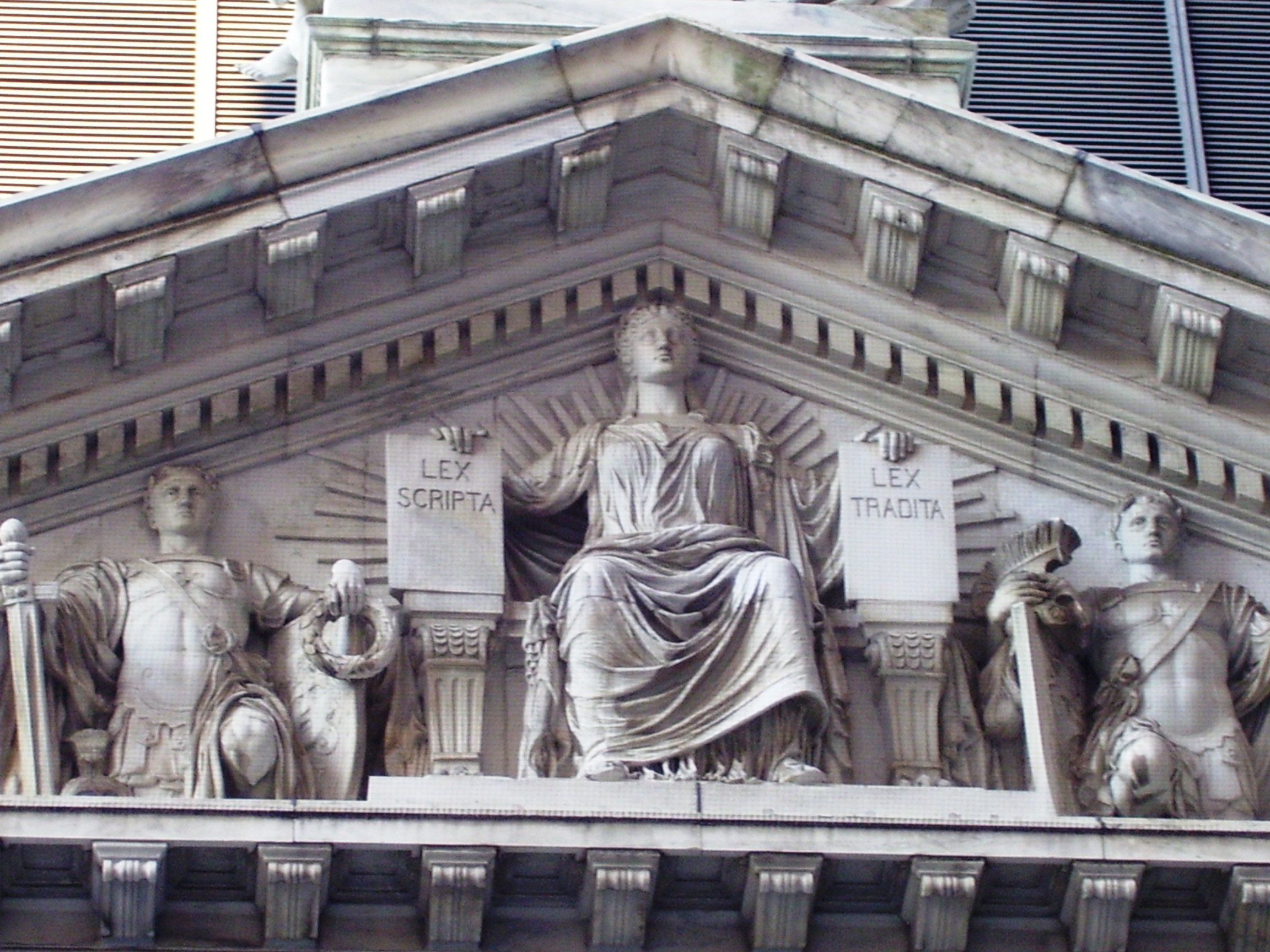 The center of the pediment of the New York State Appellate Division Courthouse on East 25th Street at Madison Avenue across from Madison Square Park in Manhattan, New York City.